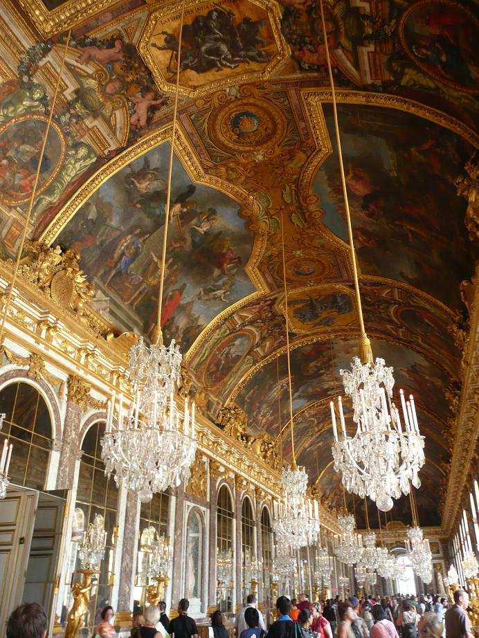 Hall or mirrors, Versailles